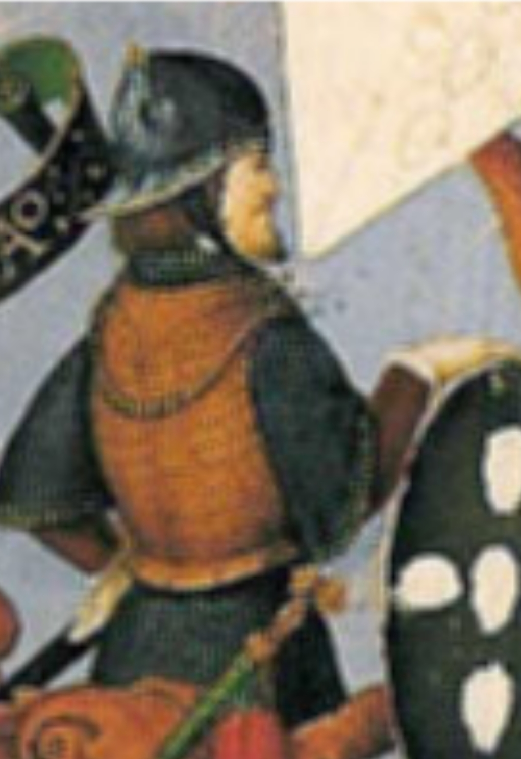 Peter Afonso, illegitimate son of Afonso Henriques